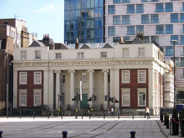 The General Lying-in Hospital (ie. maternity hospital) on the east side of York Road, Lambeth, London.